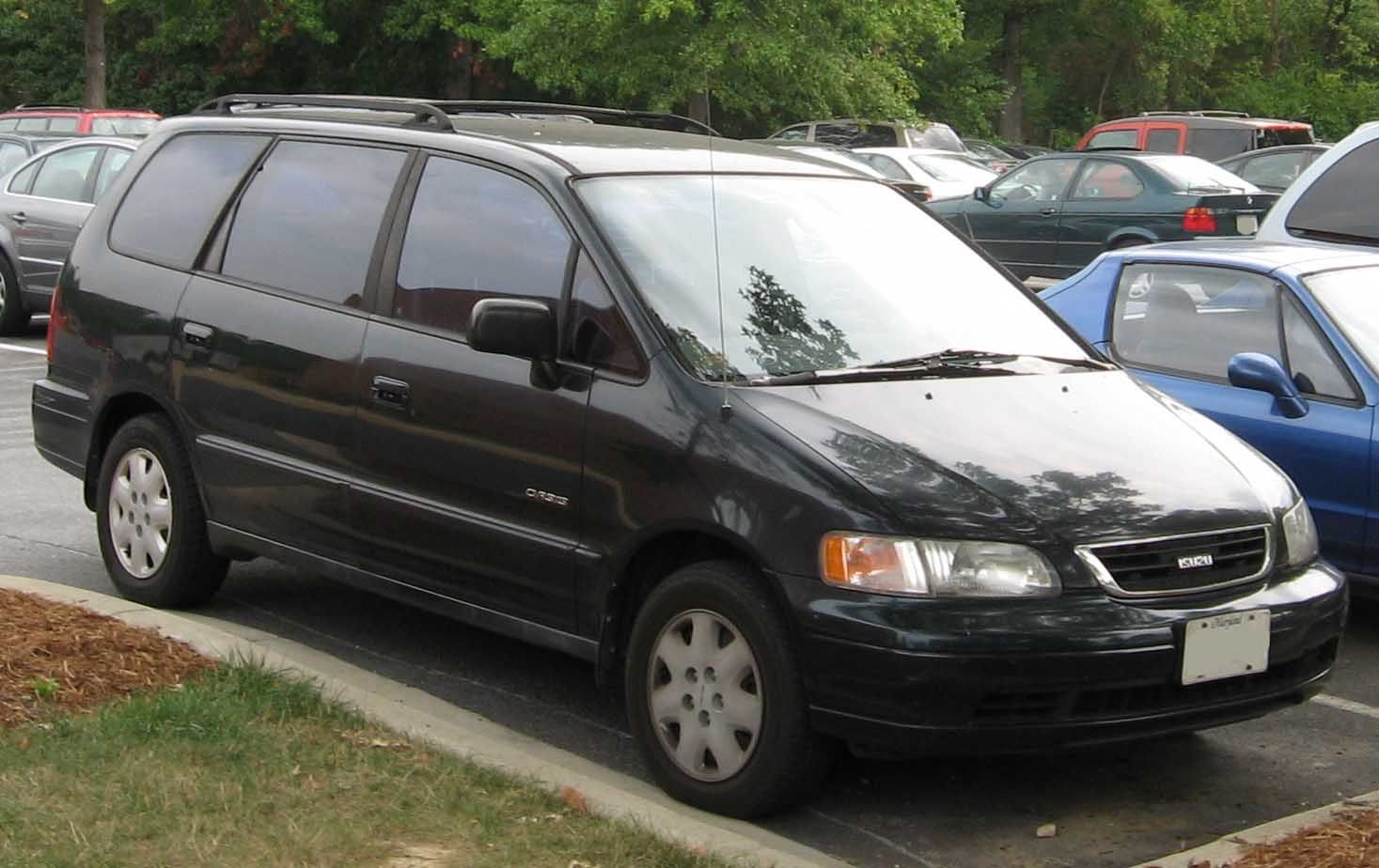 Isuzu Oasis photographed in College Park, Maryland, USA.